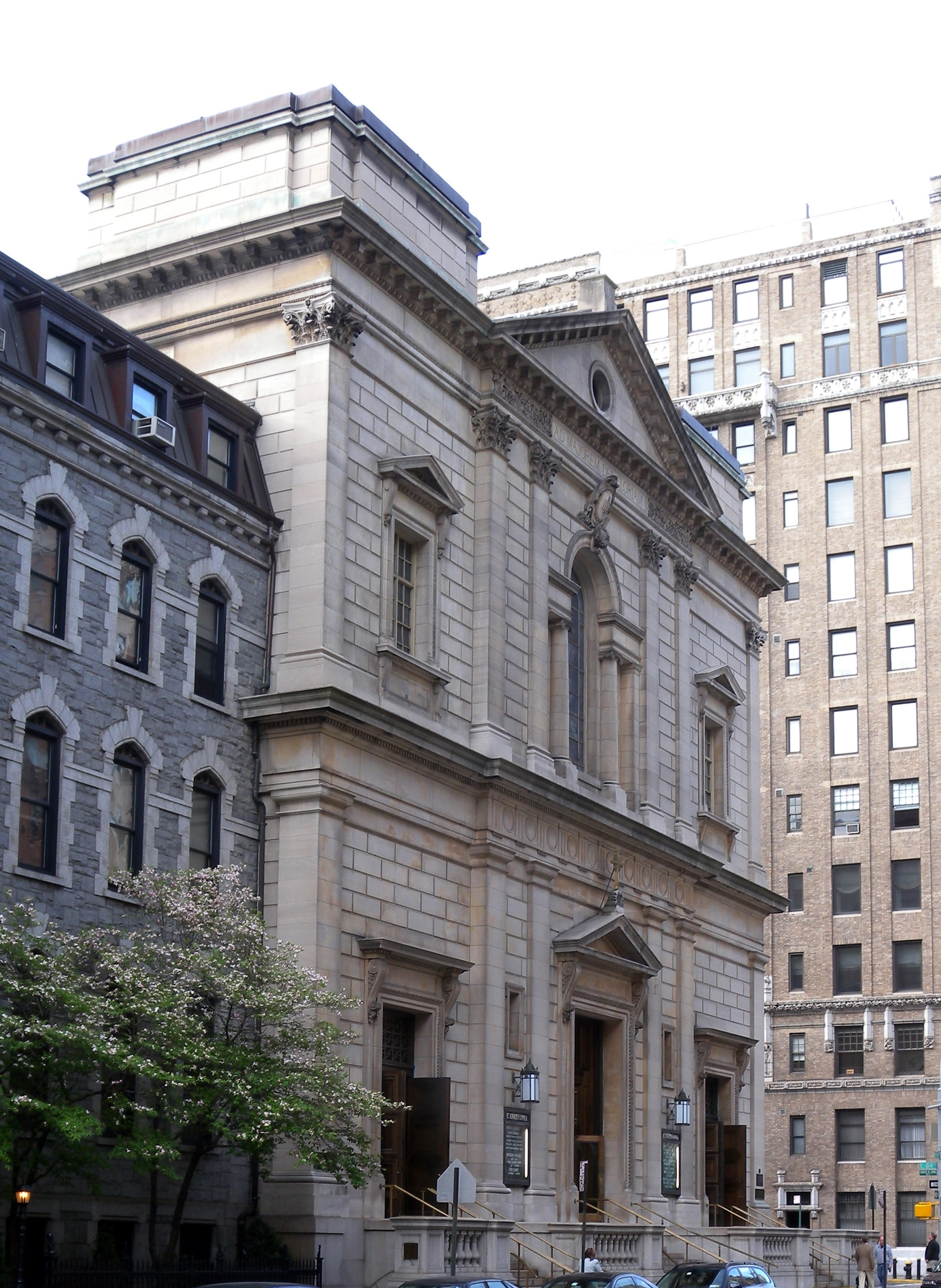 Looking north along Park Ave from 83d St at Loyola Church on a cloudy afternoon.